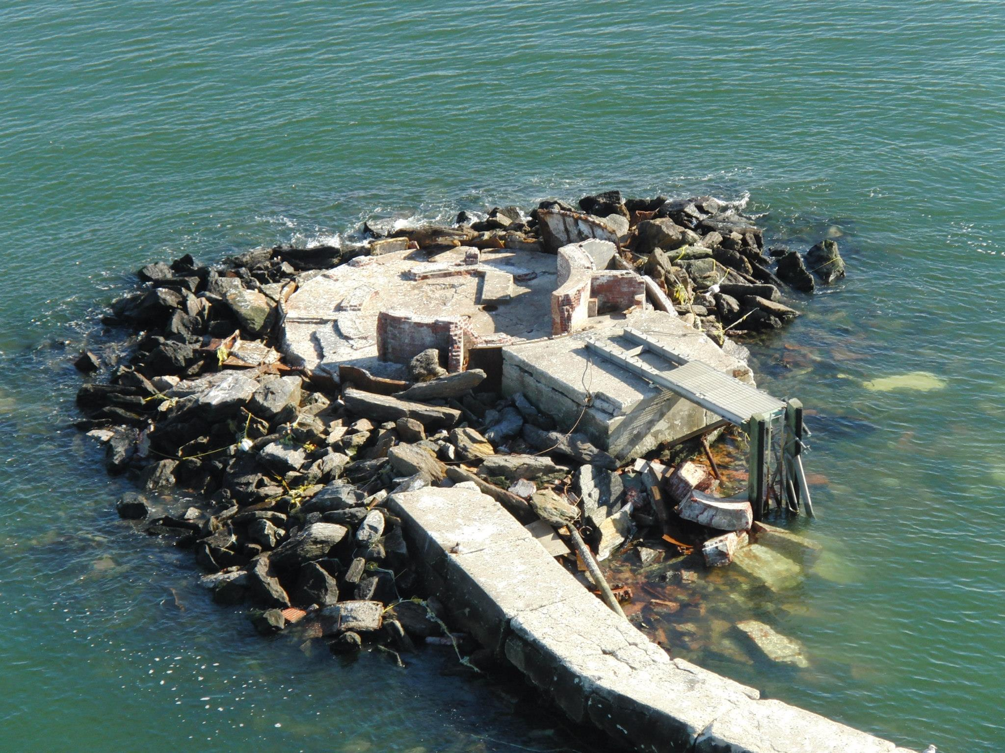 Old Orchard Shoal Light was destroyed by Hurricane Sandy on Oct. 29, 2012. The Shoal was completed and lit on April 25, 1893. Old Orchard Shoal Light was listed on the National Park Service's Maritime Heritage Program as Lighthouse to visit and as one of New York's Historic Light Stations. U.S. Coast Guard photo.